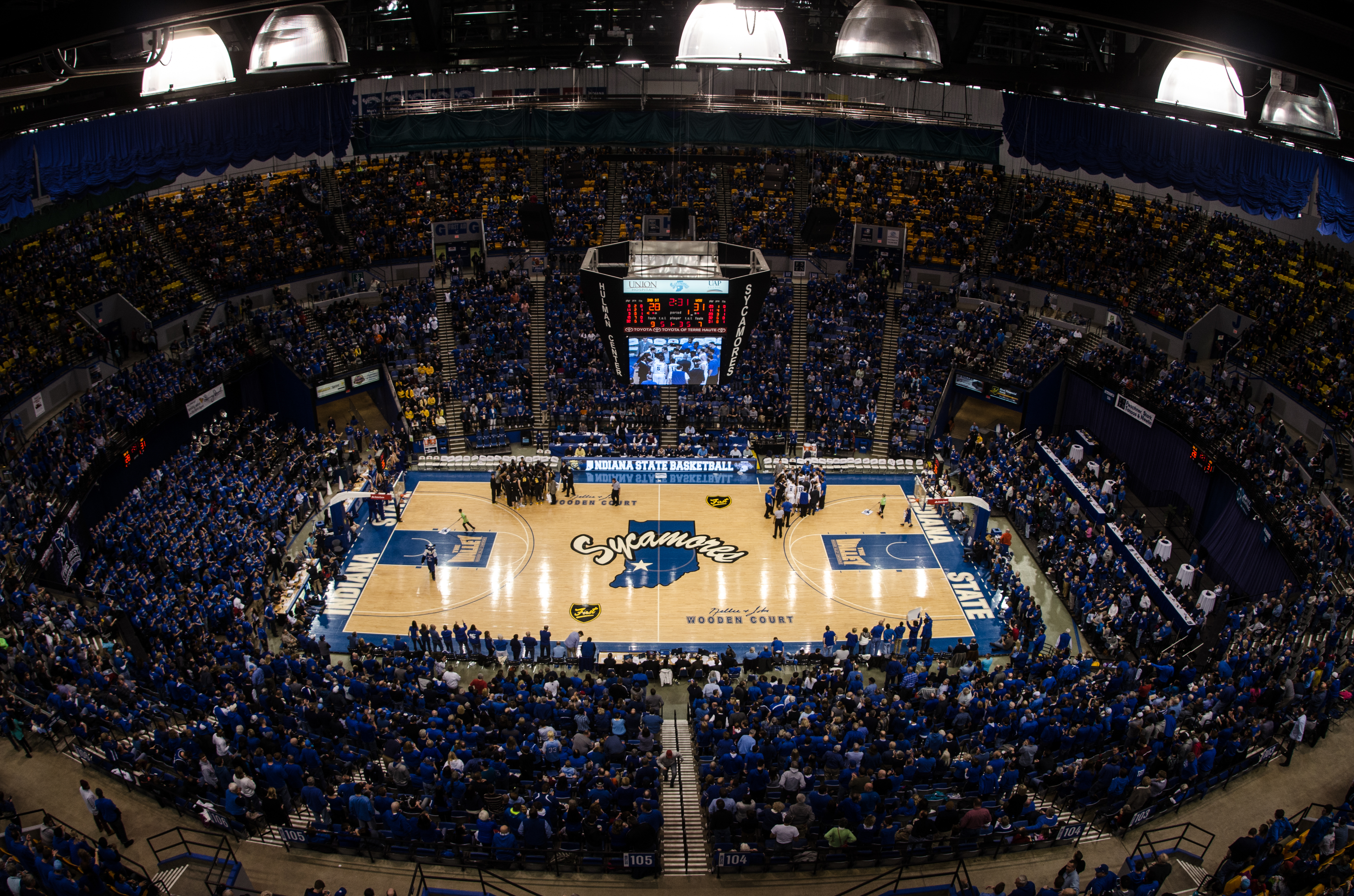 ISU falls to #4 Wichita State at Hulman Center in mens basketball action